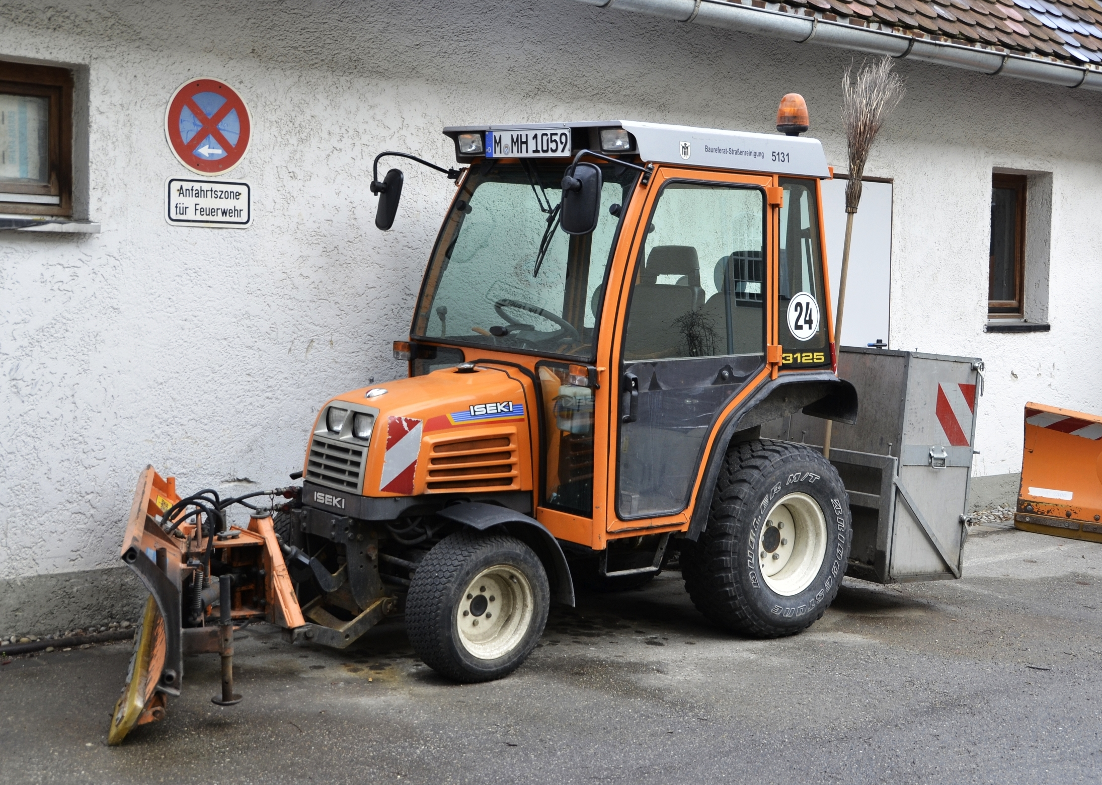 Iseki snow removal tractor.